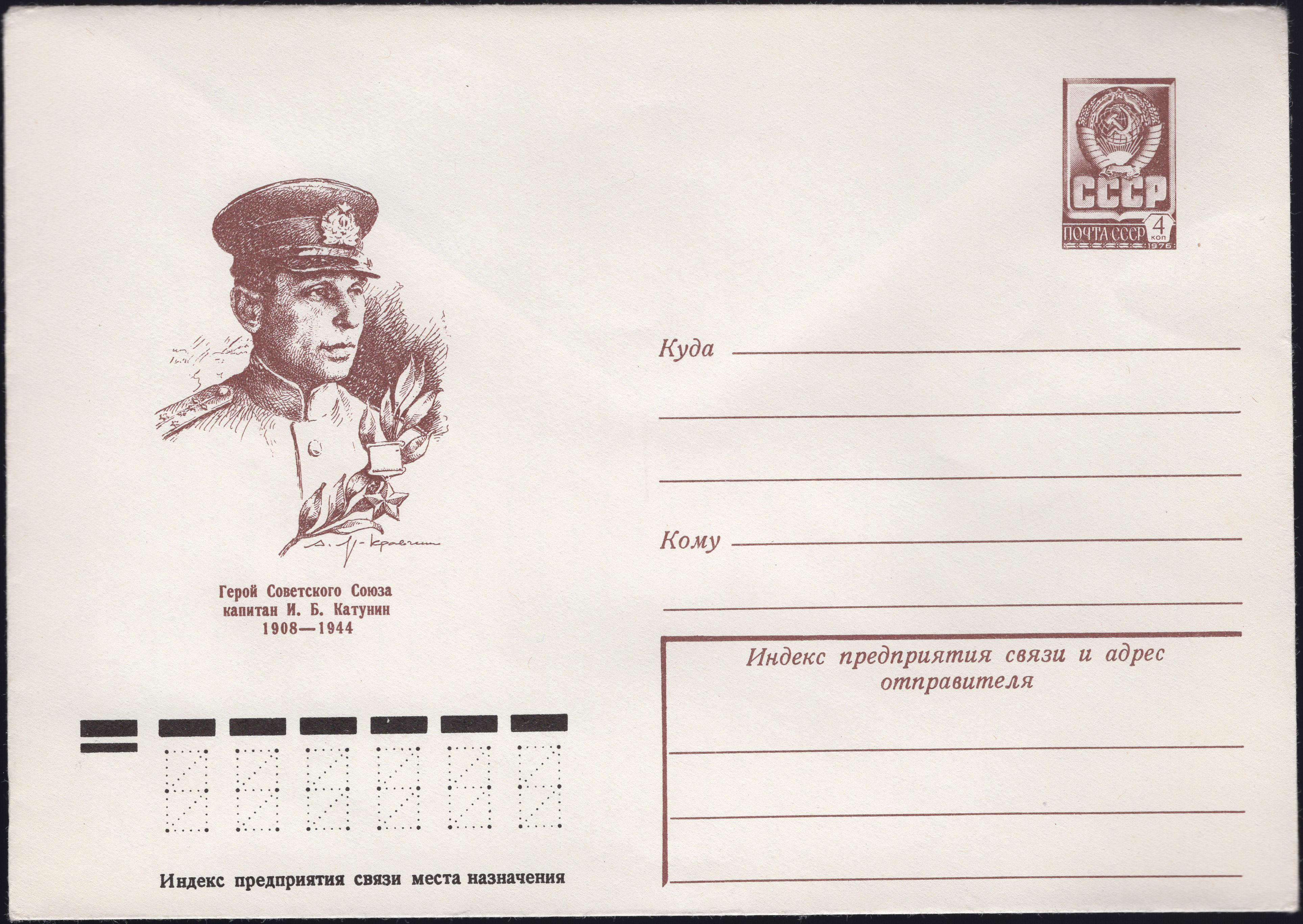 Hero of the Soviet Union Captain Ilya Katunin. 1908-1944. Series: Heroes of the Soviet Union.